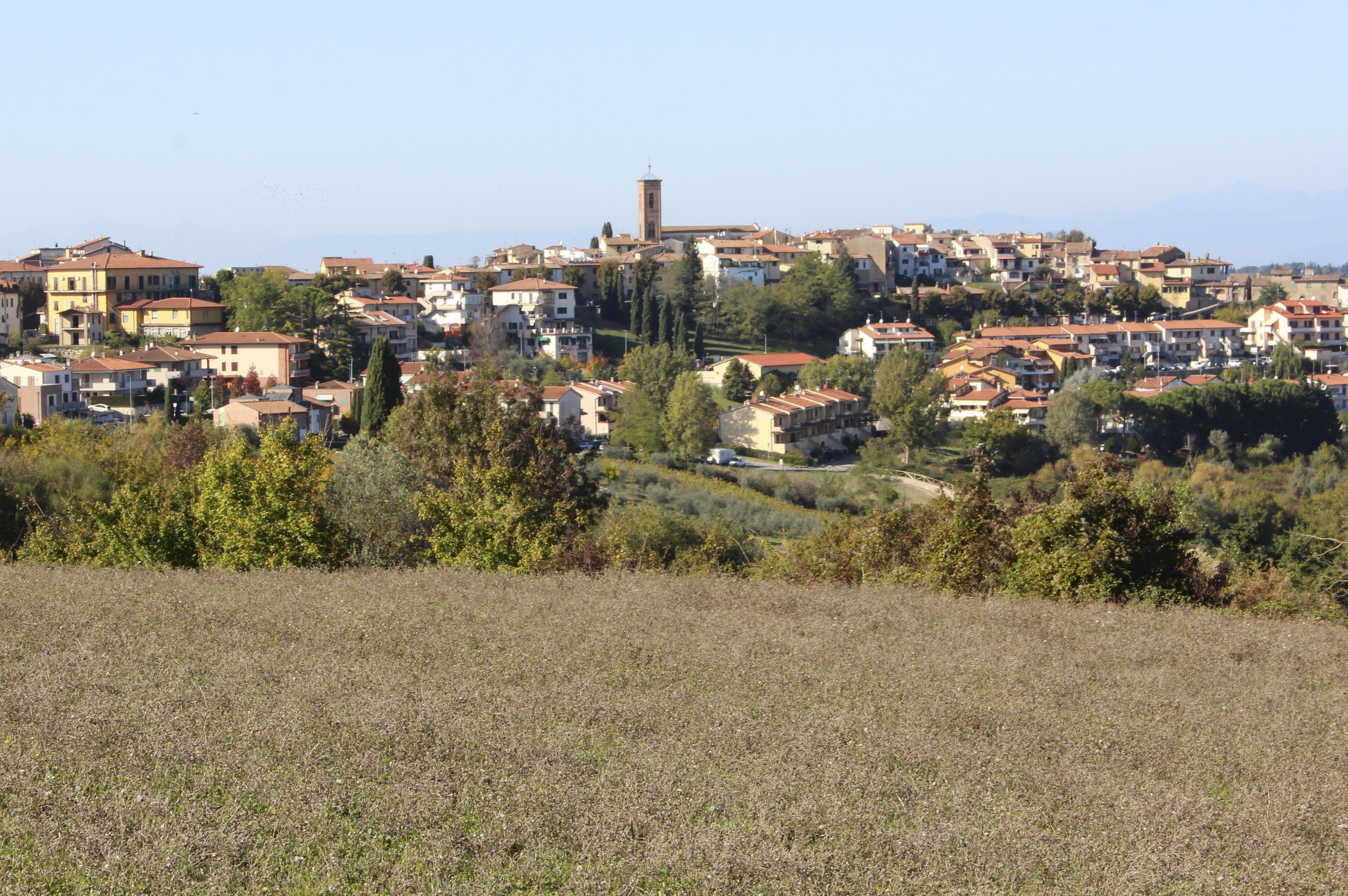 Panorama of Montespertoli, Metropolitan City of Florence, Tuscany, Italy